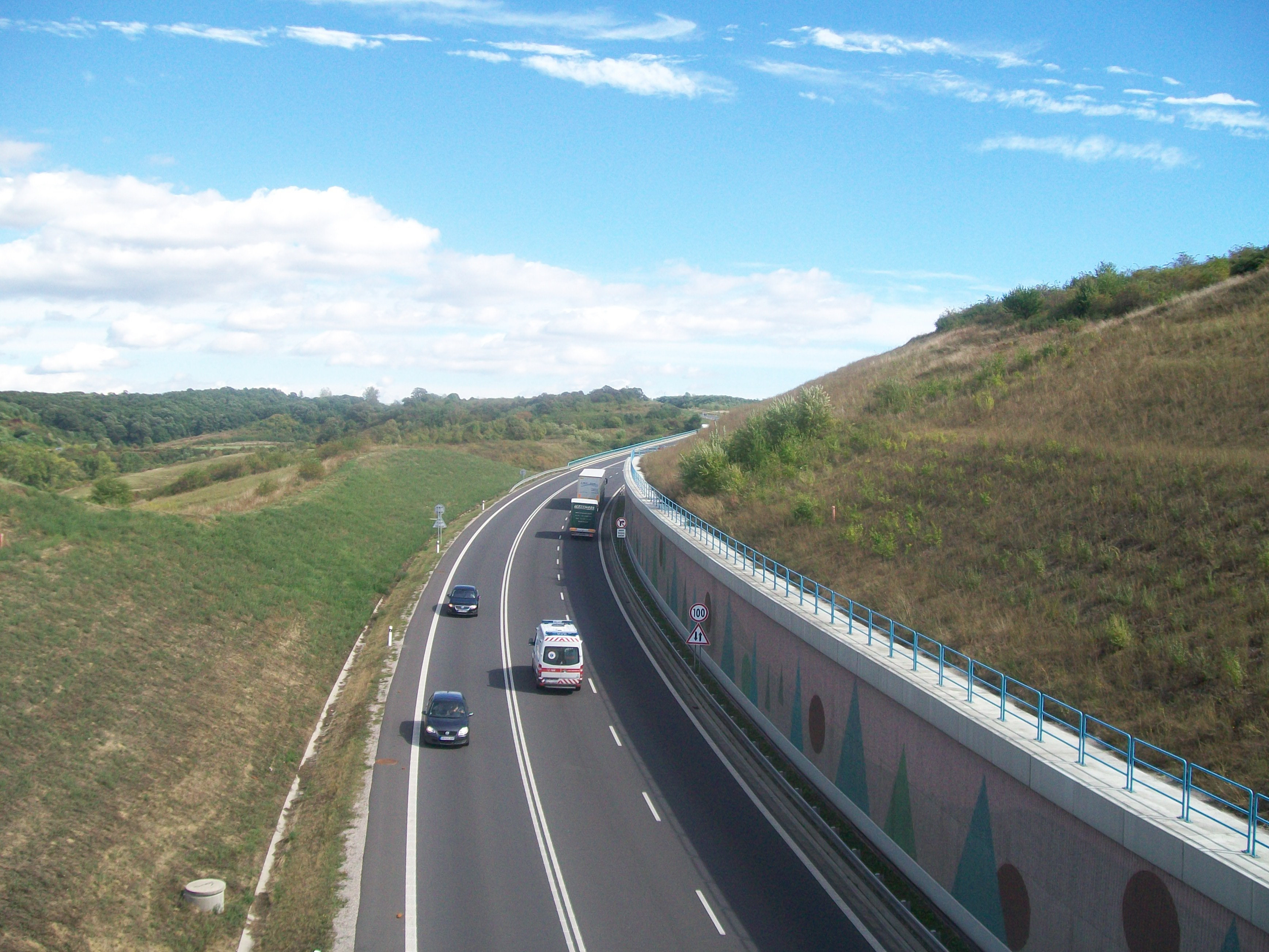 View of expressways R2 (Slovakia) at Ožďany